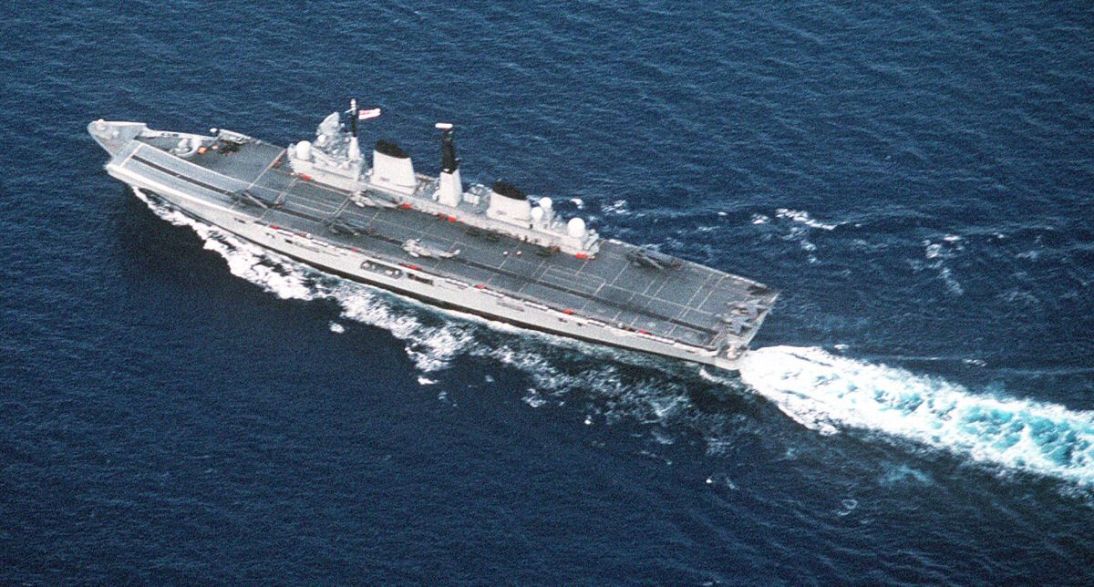 An aerial port quarter view of the British aircraft carrier HMS INVINCIBLE (R-05) underway during the NATO exercise Display Determination '91.